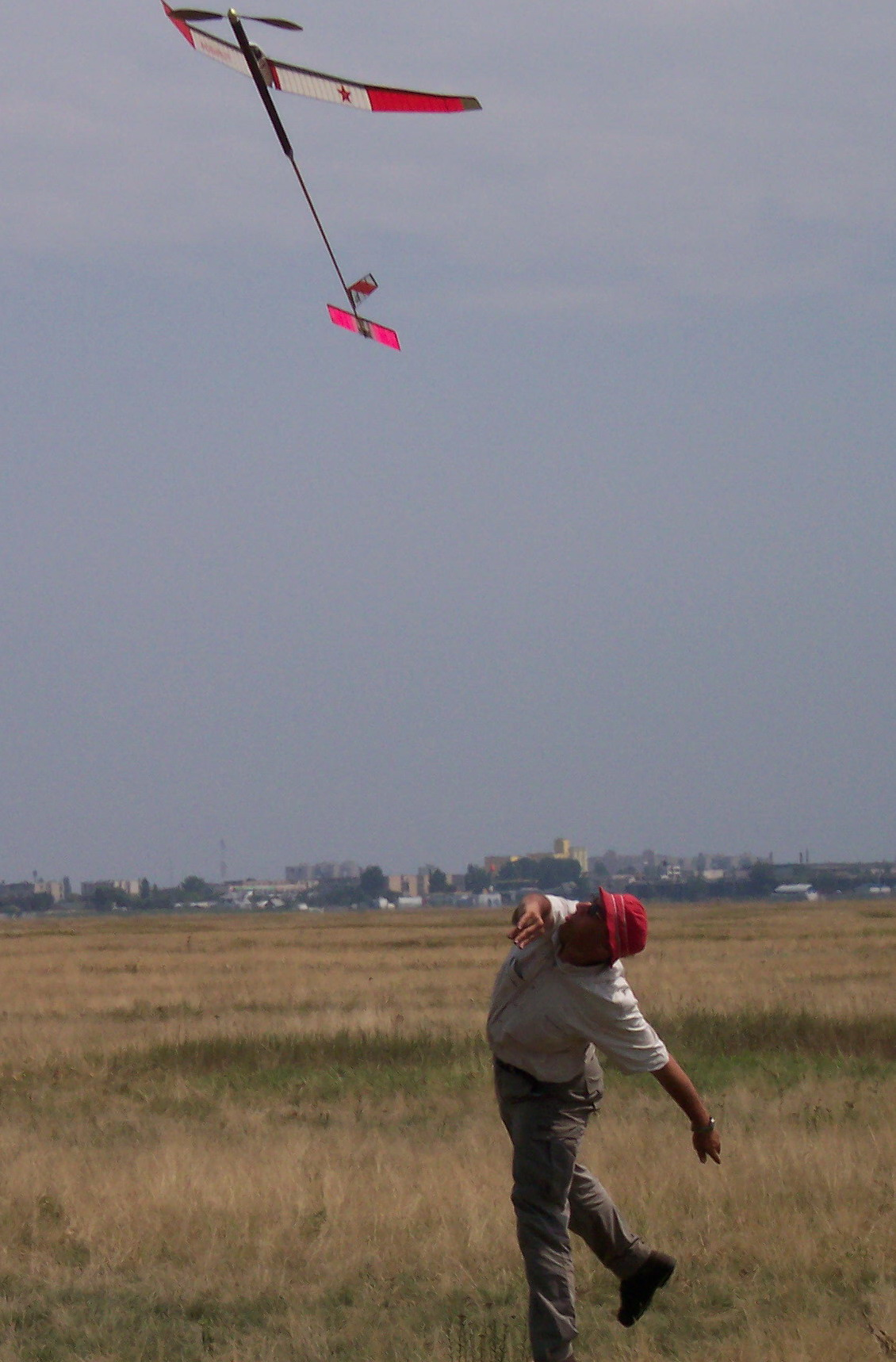 Euro Champ 2004 - Buzau Romenia Model by Ismail SARIOGLU